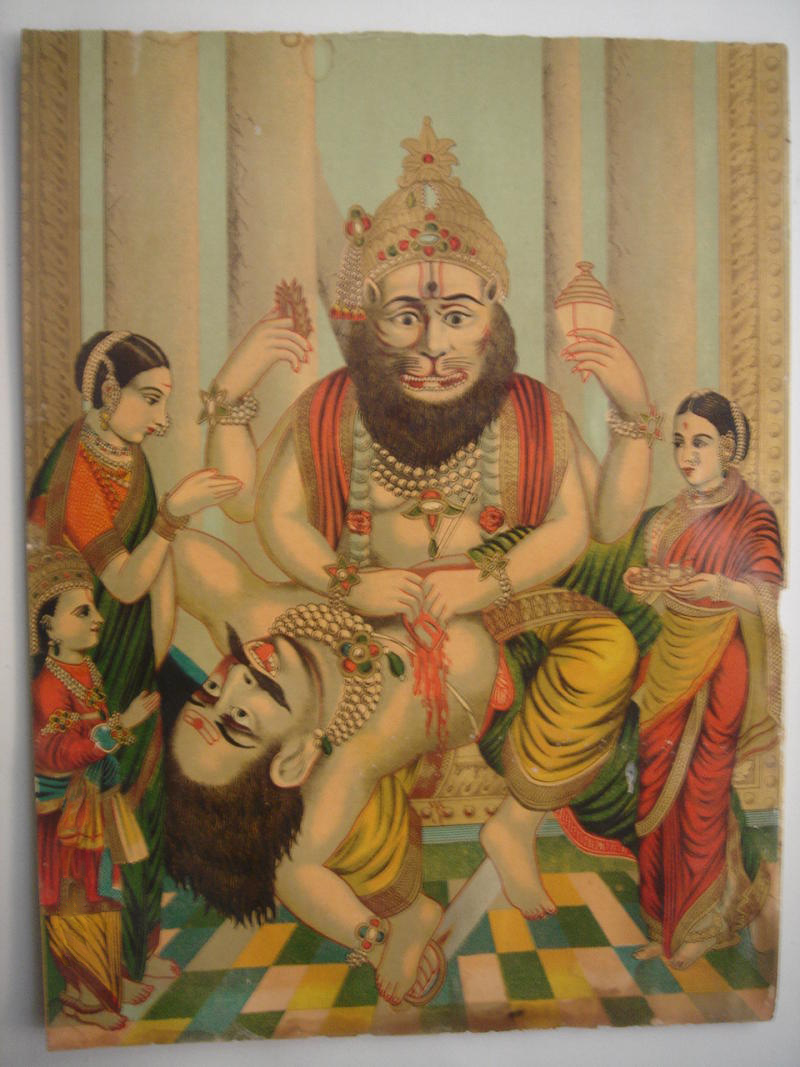 Vishnu's half-man half-tiger avatar, Narasimha Vishnu's half-man half-tiger avatar, Narasimha, in a bazaar art *an earlier German print, 1880's, that was its apparent source*